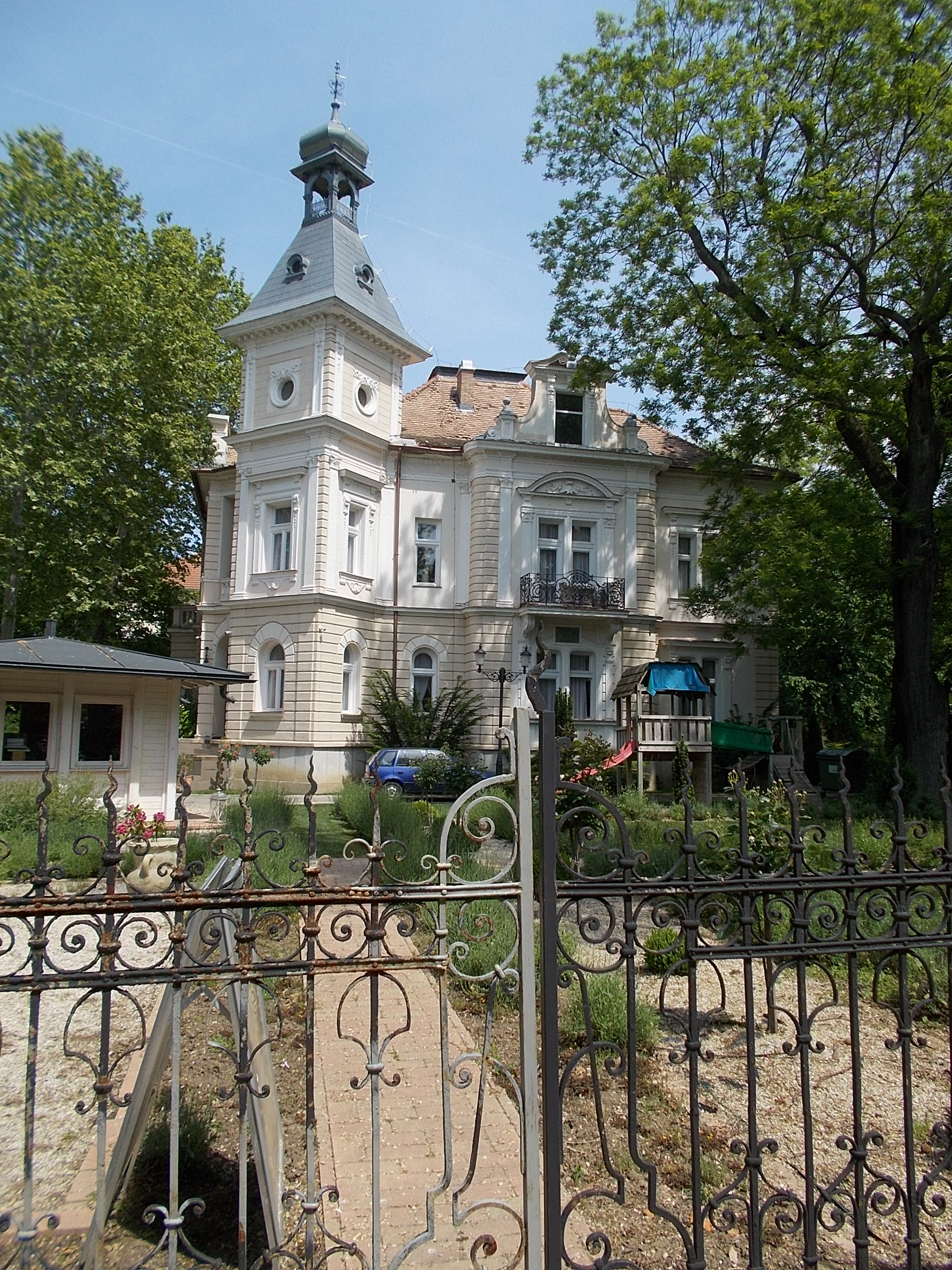 Jókai Villa Hotel. Listed. - 2 Batthyány street, Siófok, Somogy County, Hungary.